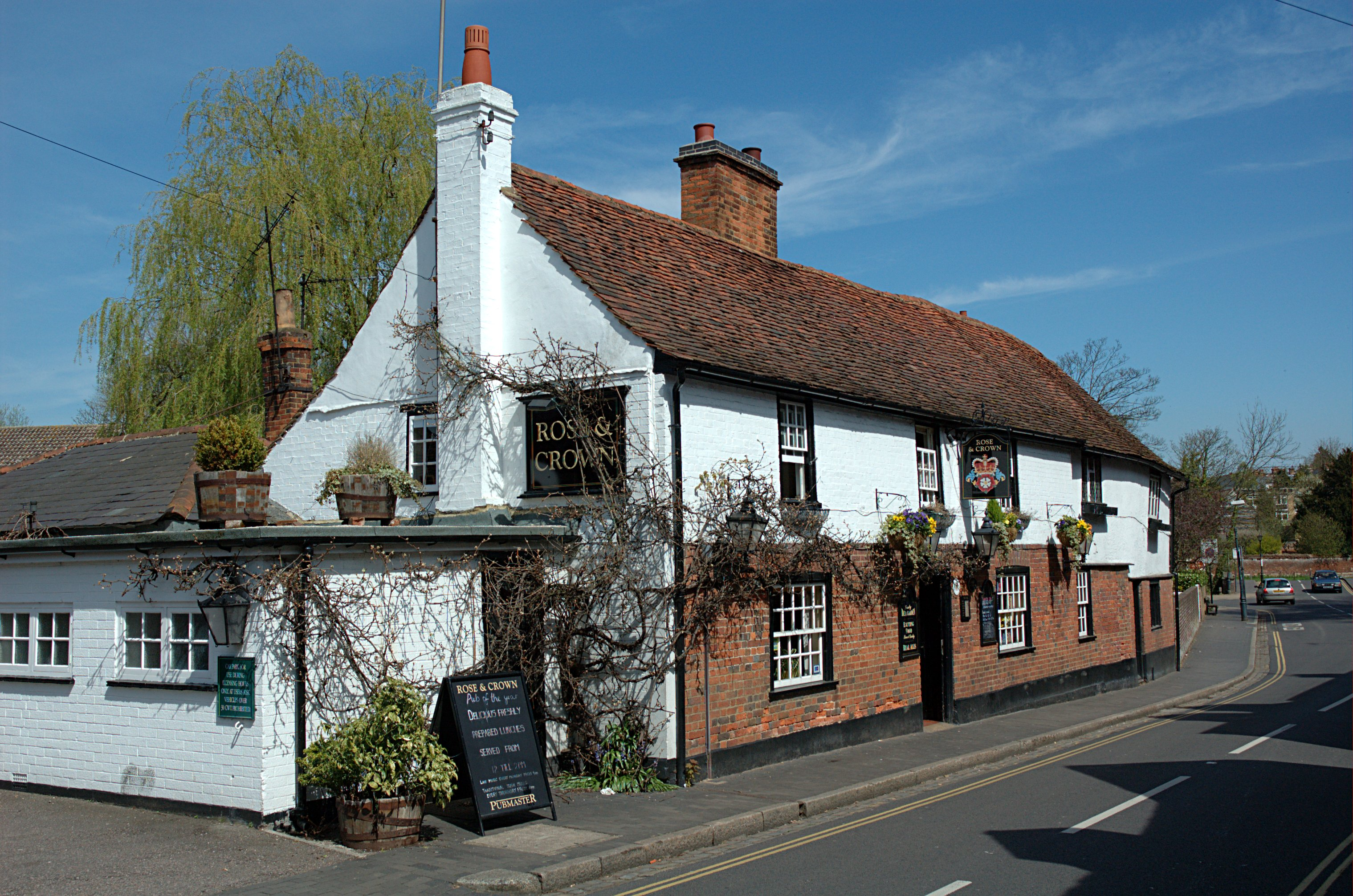 Rose and Crown, St. Michaels Street, St Albans, Hertfordshire, England, UK